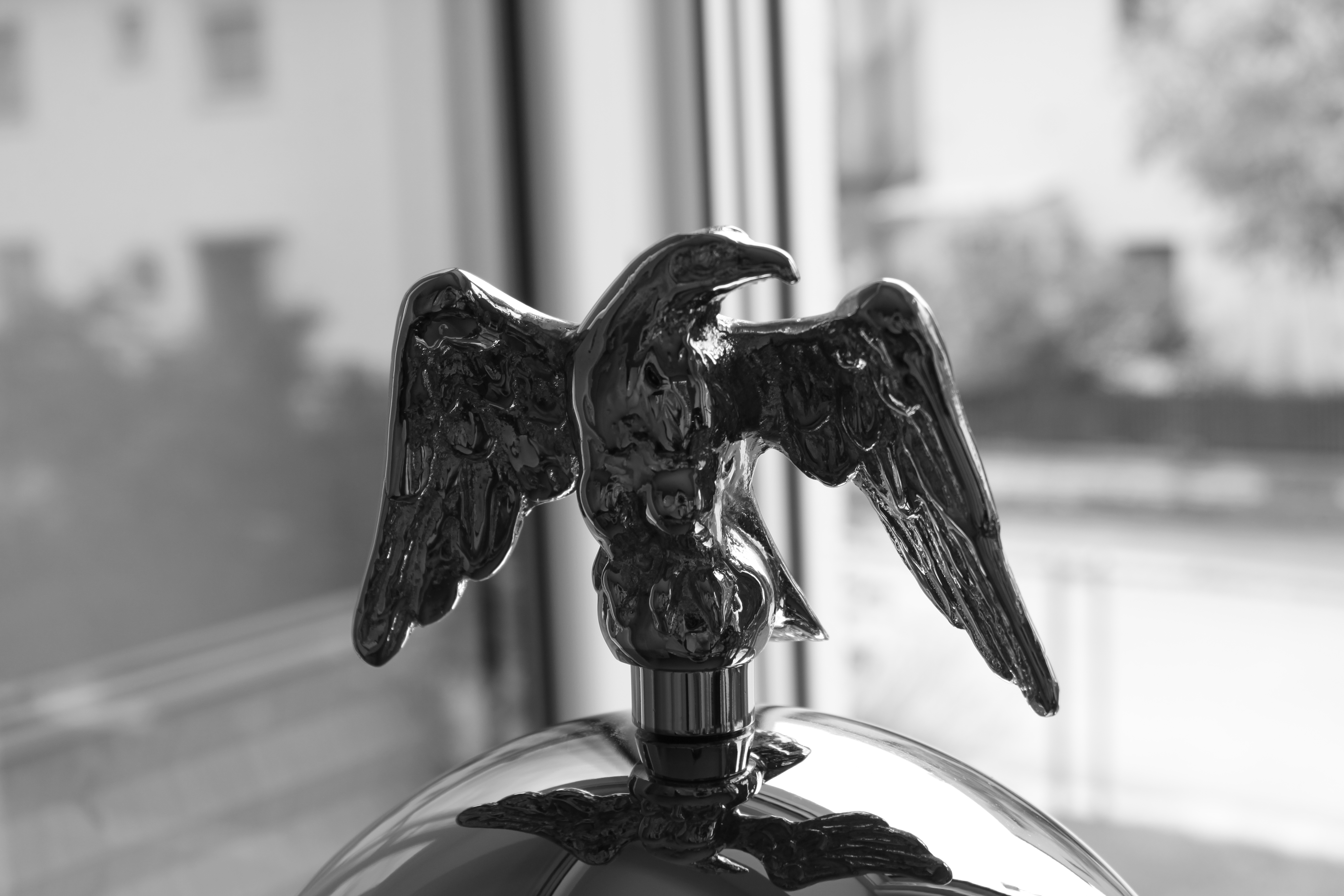 Typical sand-cast eagle on top of an "Elektra" coffee machine. the eagle belonging to the company symbol of Elektra